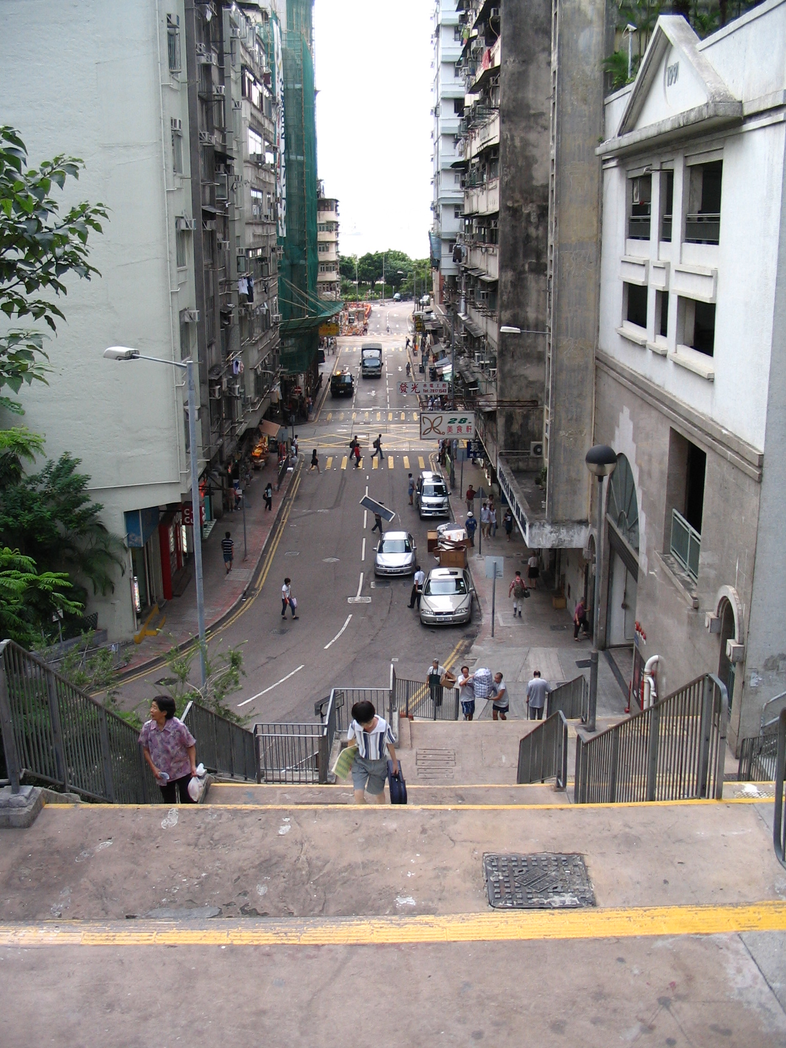 Photo of Sands Street